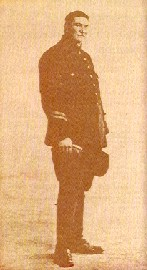 Agustín Goovaerts with his uniform in the WWI